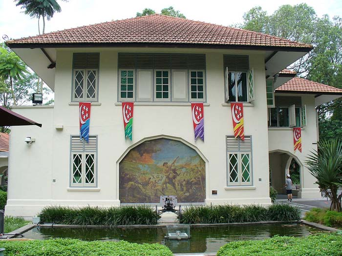 Reflections at Bukit Chandu near Kent Ridge Park, Singapore.